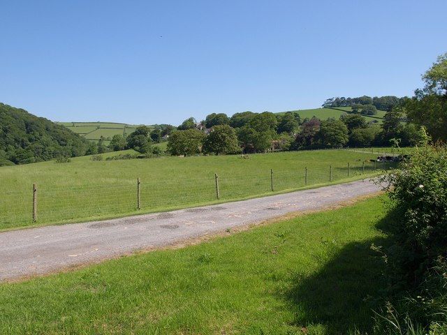 Drive to Westaway A glimpse of the facade and the two-storey porch of the C18 house can be seen through the trees , seen from Westaway Plain. On the left is the valley of Bradiford Water.